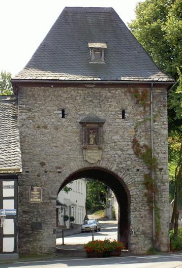 "Derker Tor" in Brilon. This image shows a heritage building in Germany, located in the North Rhine-Westphalian city Brilon.